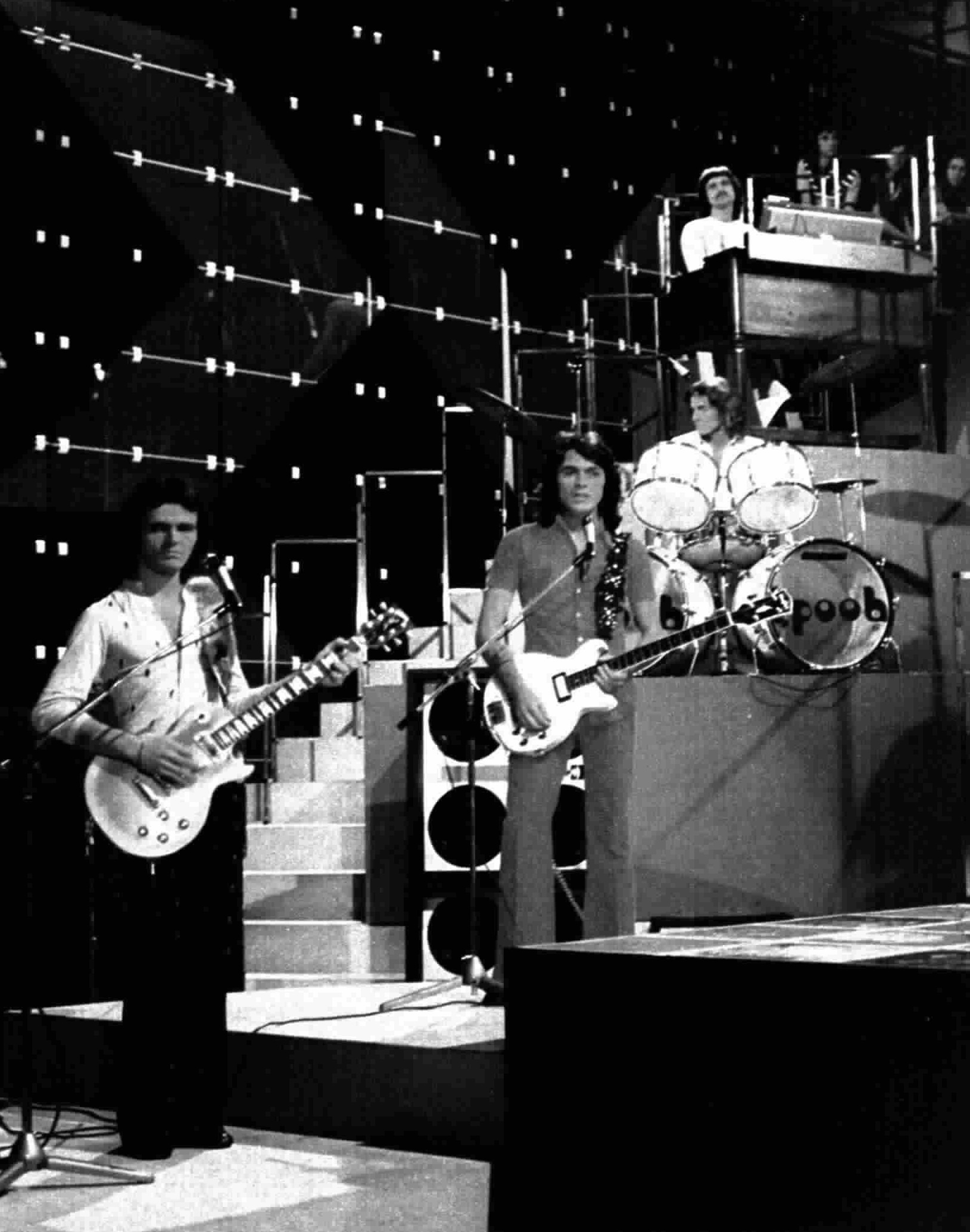 Italian band Pooh, guests of the Italian show Tutto è pop, Turin, 1972